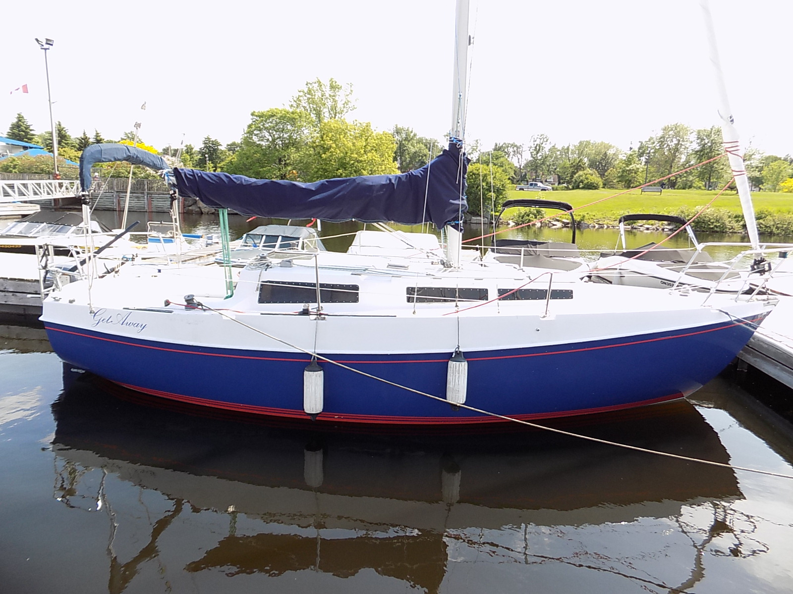 A Discovery 7.9 sailboat named Get Away. This was a post production boat and has a different than standard window arrangement.